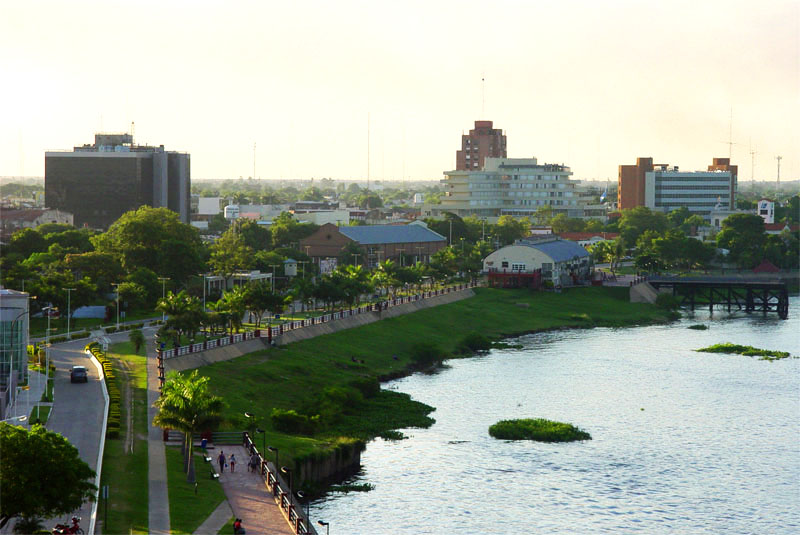 Formosa City river side